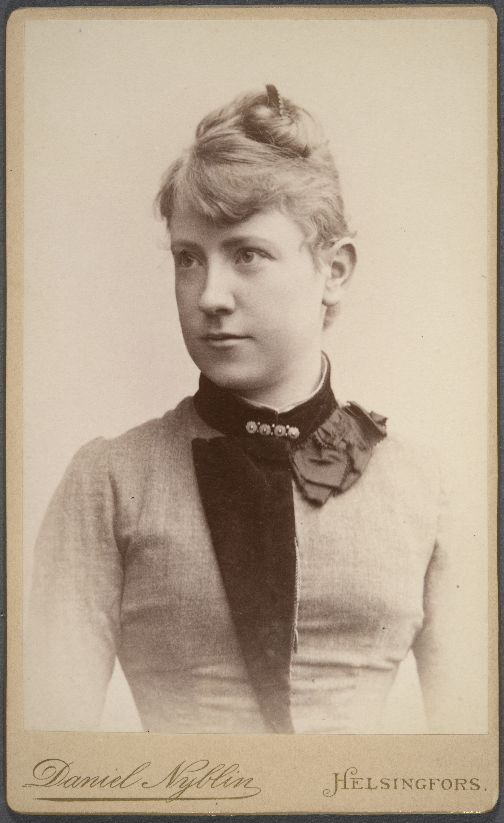 Photograph of the Finnish artist Lilli Törnudd (1862–1929).